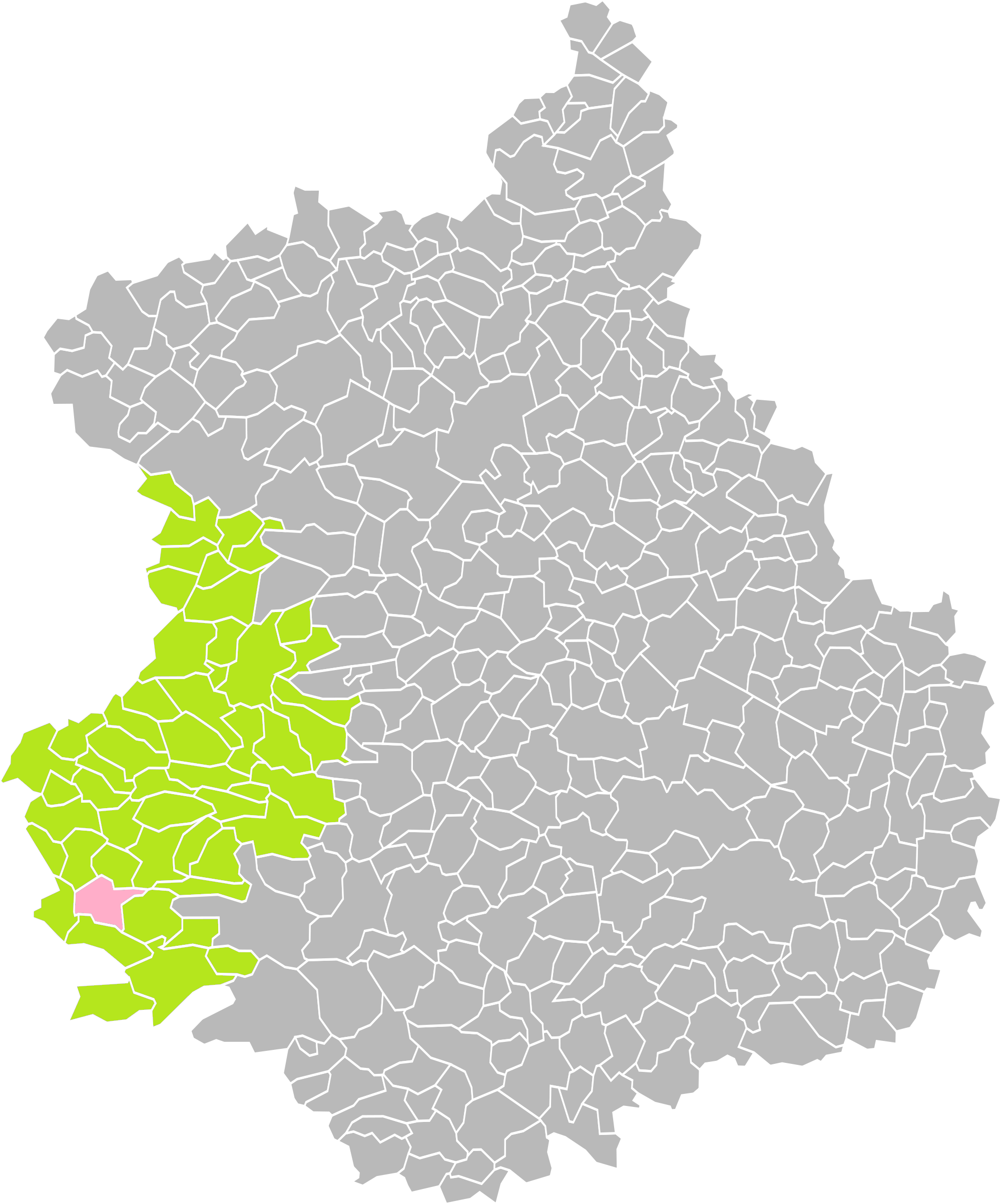 Location of the commune of Authon-du-Perche in the arrondissement of Nogent-le-Rotrou (Eure-et-Loir)